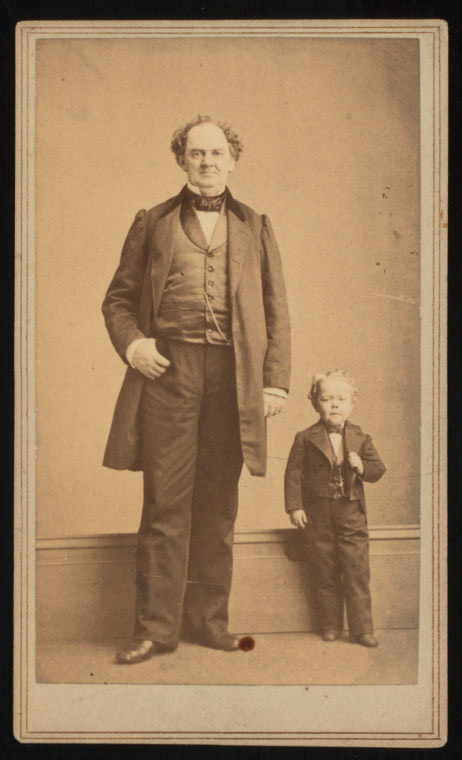 P. T. Barnum (1810-1891) and Nutt (1848-1881). ca. 1862